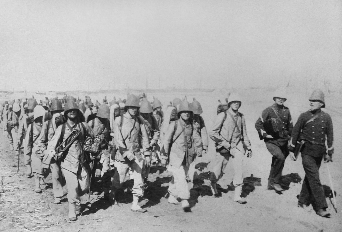 French troops [40e bataillon de chasseurs] disambarking in Madagascar.